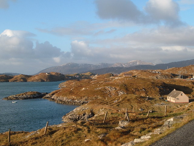 Scalpay, looking roughly west to the Harris hills.